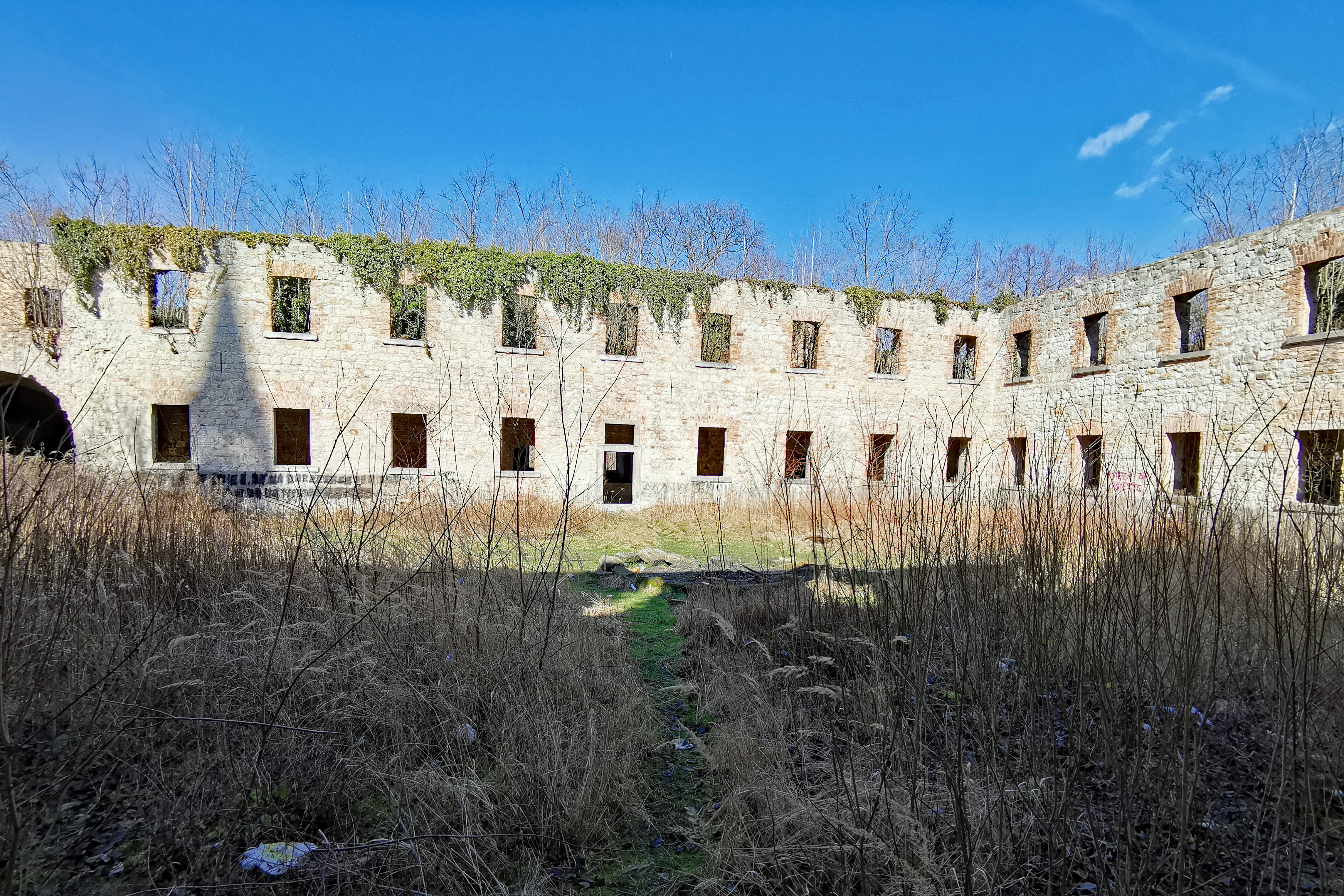 Nowogrodziec (Lower Silesian Voivodeship, Poland)